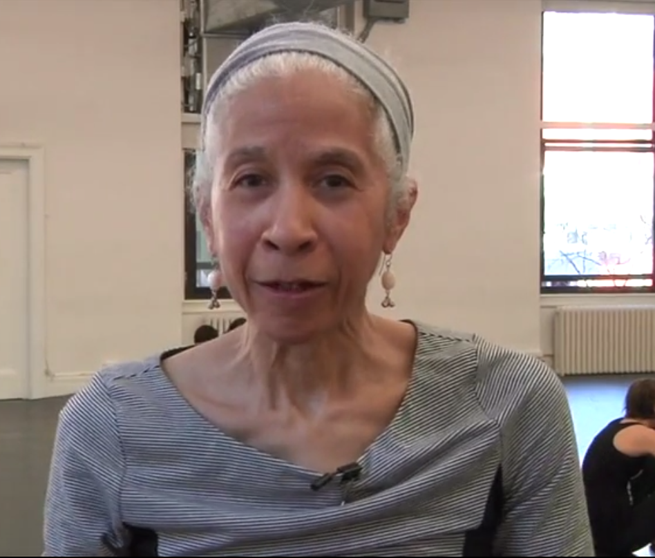 Dianne McIntyre visiting English seminar, Engl3994 at Barnard College, Columbia University in January 2014